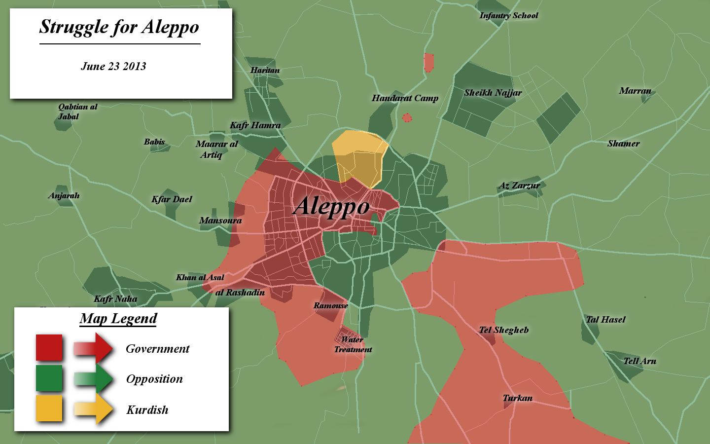 Situation in Aleppo city on June 23 2013. Created in gimp 2.8. Influenced by maps from creators: Cedric Labrousse, MrPenguin20, and so on.